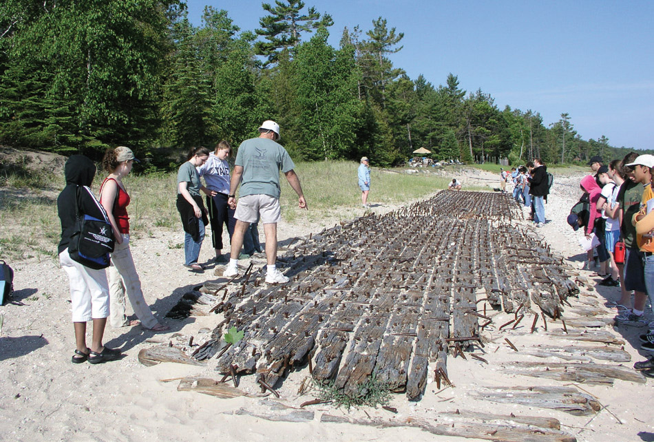 The wreck of the Joseph S fay. Caption in source document: The beached remains of the 215-foot wooden steamer Joseph S. Fay (image) and nearby Forty-Mile Point Lighthouse are dramatic and closely related aspects of the Thunder Bay area’s maritime cultural landscape. Taking on water amidst a violent October storm in 1905, the Fay’s captain drove the iron-ore-laden vessel ashore only 200 yards from the lighthouse.